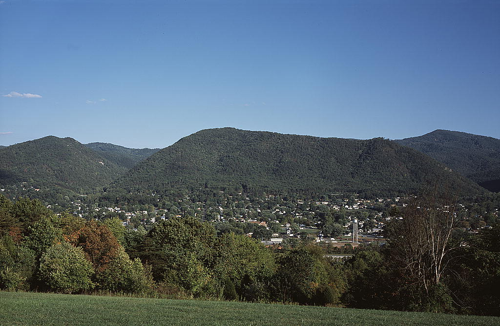 Buena Vista, Virginia. Buena Vista is located six miles from Lexington, Virginia. Population is 6,349. This town was founded in the late 1800s.